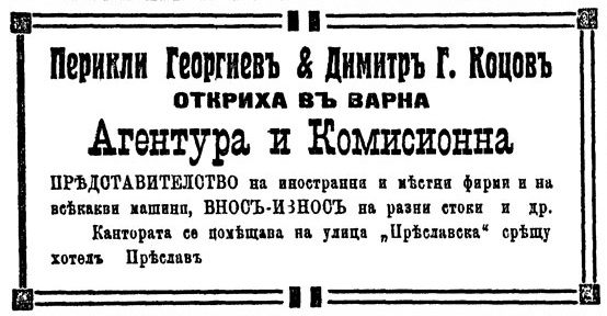 Perikili Georgiev Add